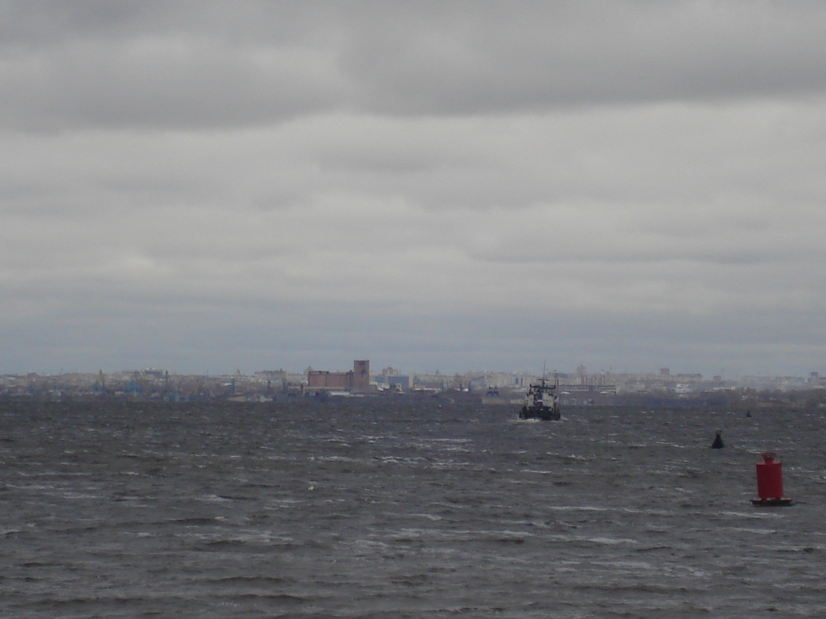 Skyline of Kazan from the Volga